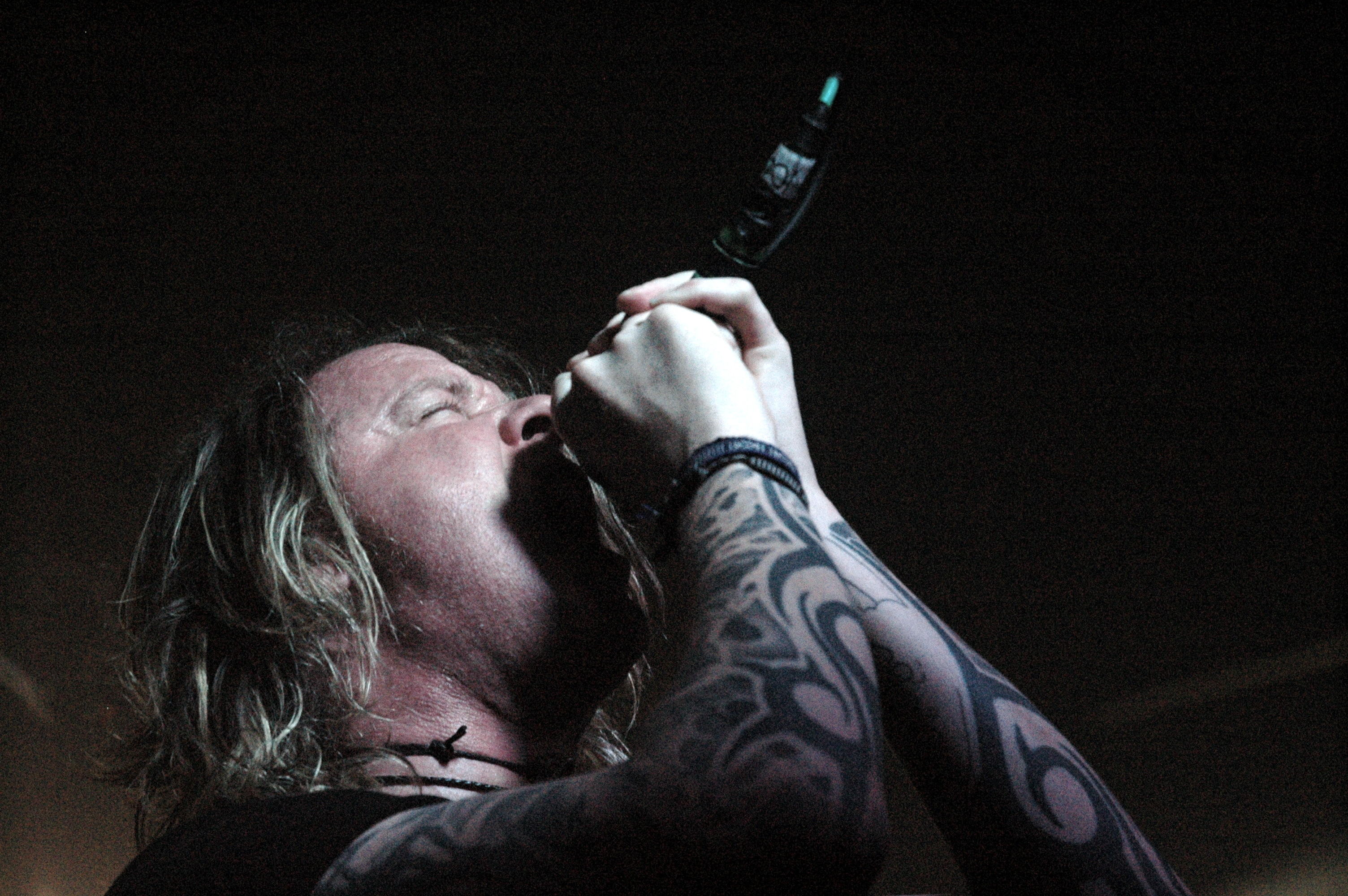 Burton C. Bell from Fear Factory at gig in Cracow, Poland